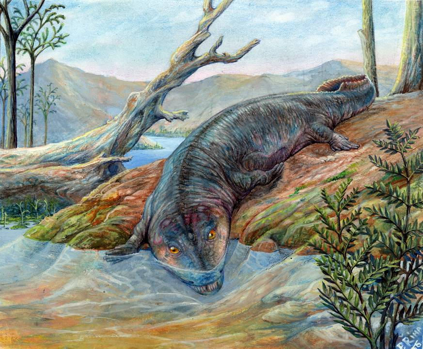 Labyrinthodontia.